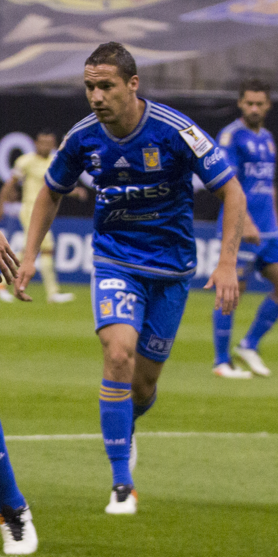 Final CONCACAF 2016